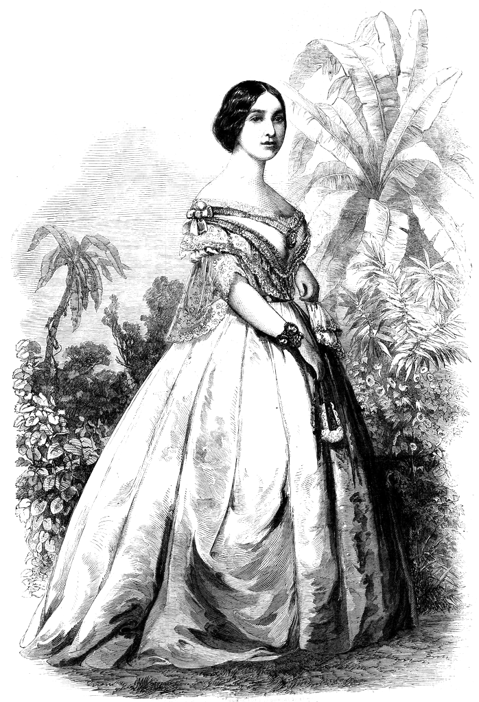 Portrait of Varina Banks Howell Davis, wife of Confederate President Jefferson Davis